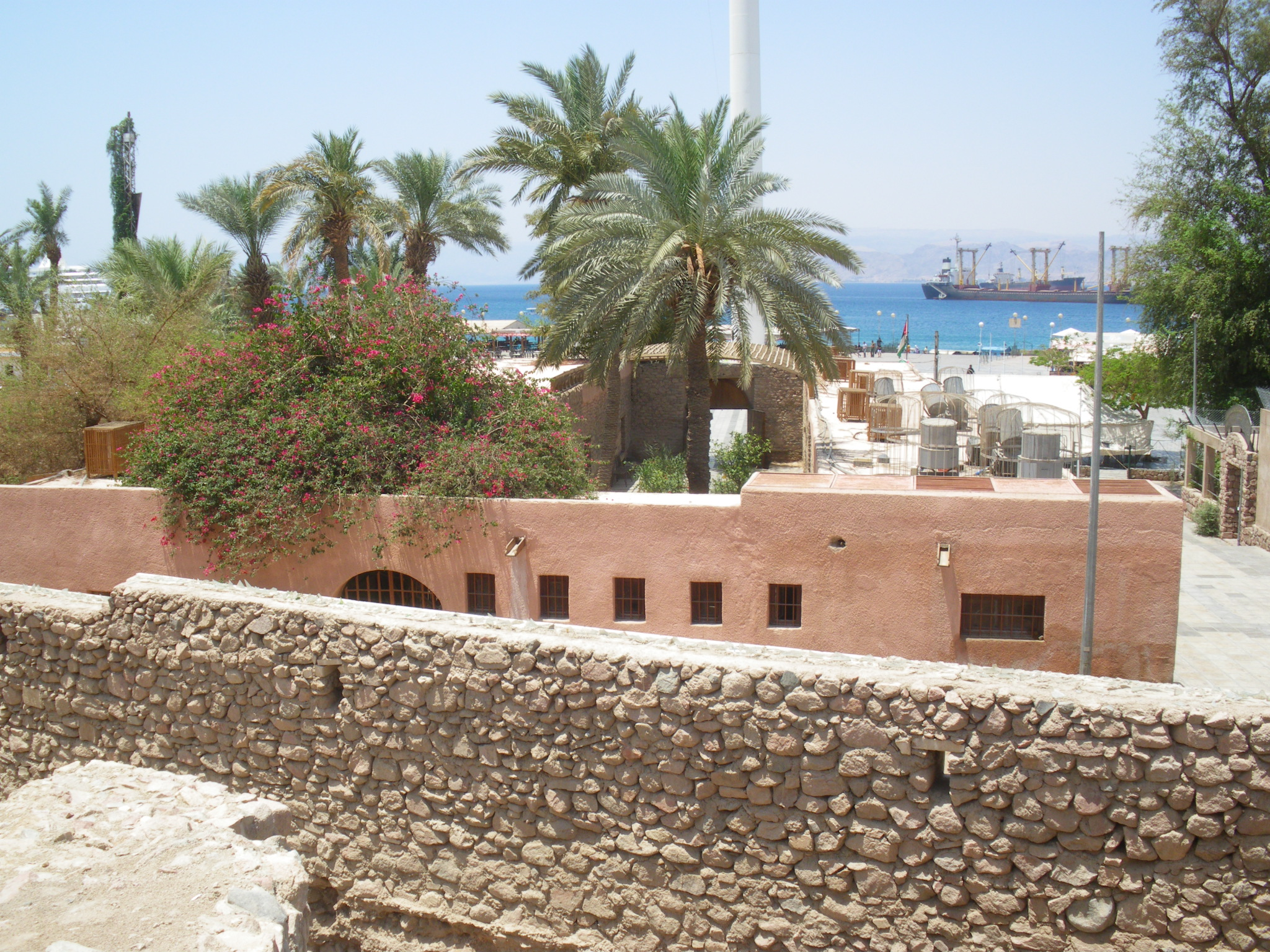 Aqaba Archeological Museum; rear, the Aqaba Flagpole and the Aqaba Gulf